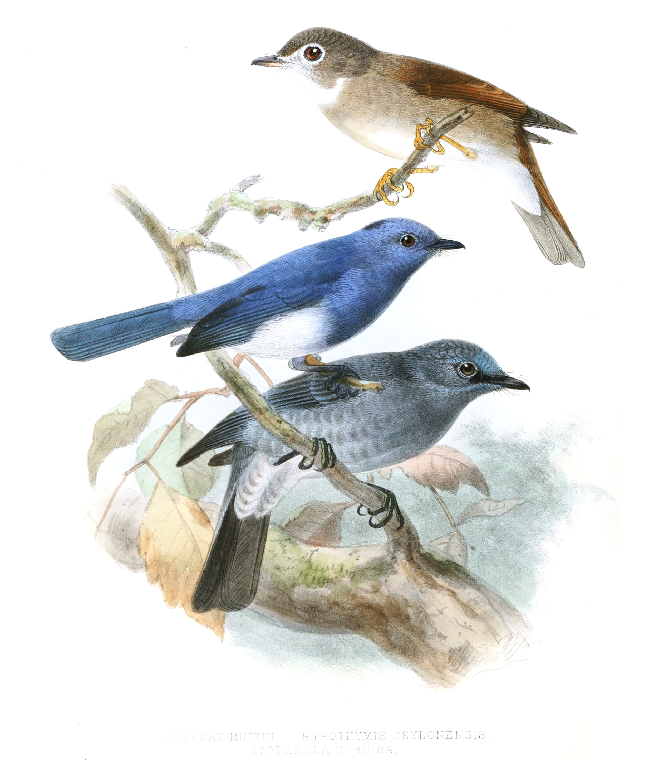 Alseonax muttui = Muscicapa muttui Hypothymis ceylonensis = Hypothymis azurea ceylonensis[1] Stoparola sordida = Eumyias sordidus